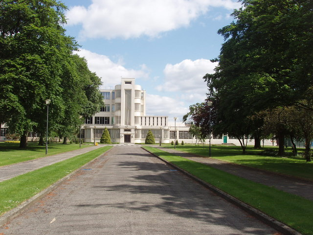 Nestlé Factory and driveway Photo from the formal gates in Nestle's Avenue which were the original entrance to the factory, which was built in 1914 as a chocolate factory and fully taken over by Nestlé's in 1929. The factory was extended alongside the canal in 1920. Manufacture of instant coffee started in 1939.